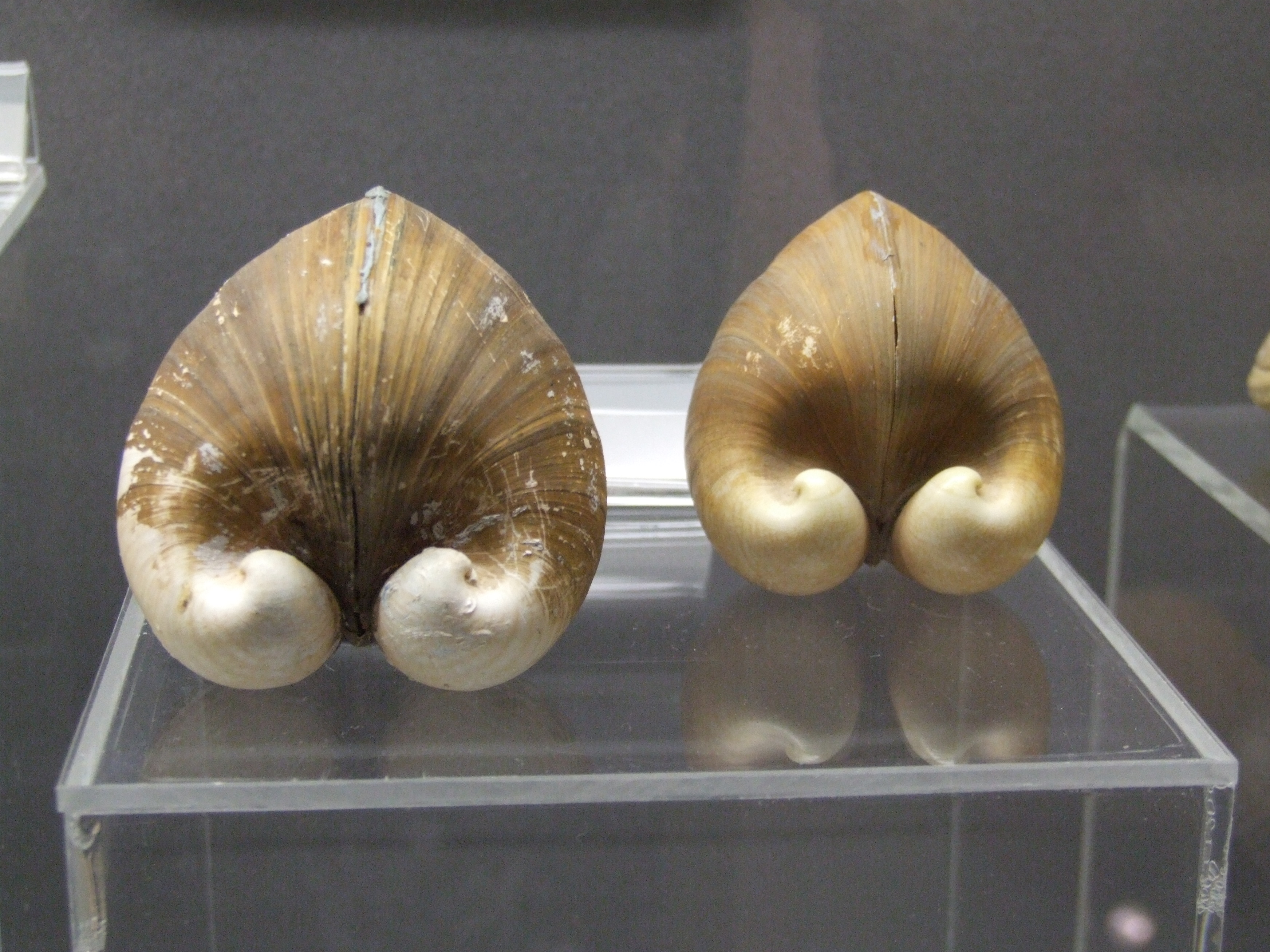 Collection of Tornaritis-Pierides Marine Life Foundation, exhibited at the Thalassa Museum : Glossus humanus